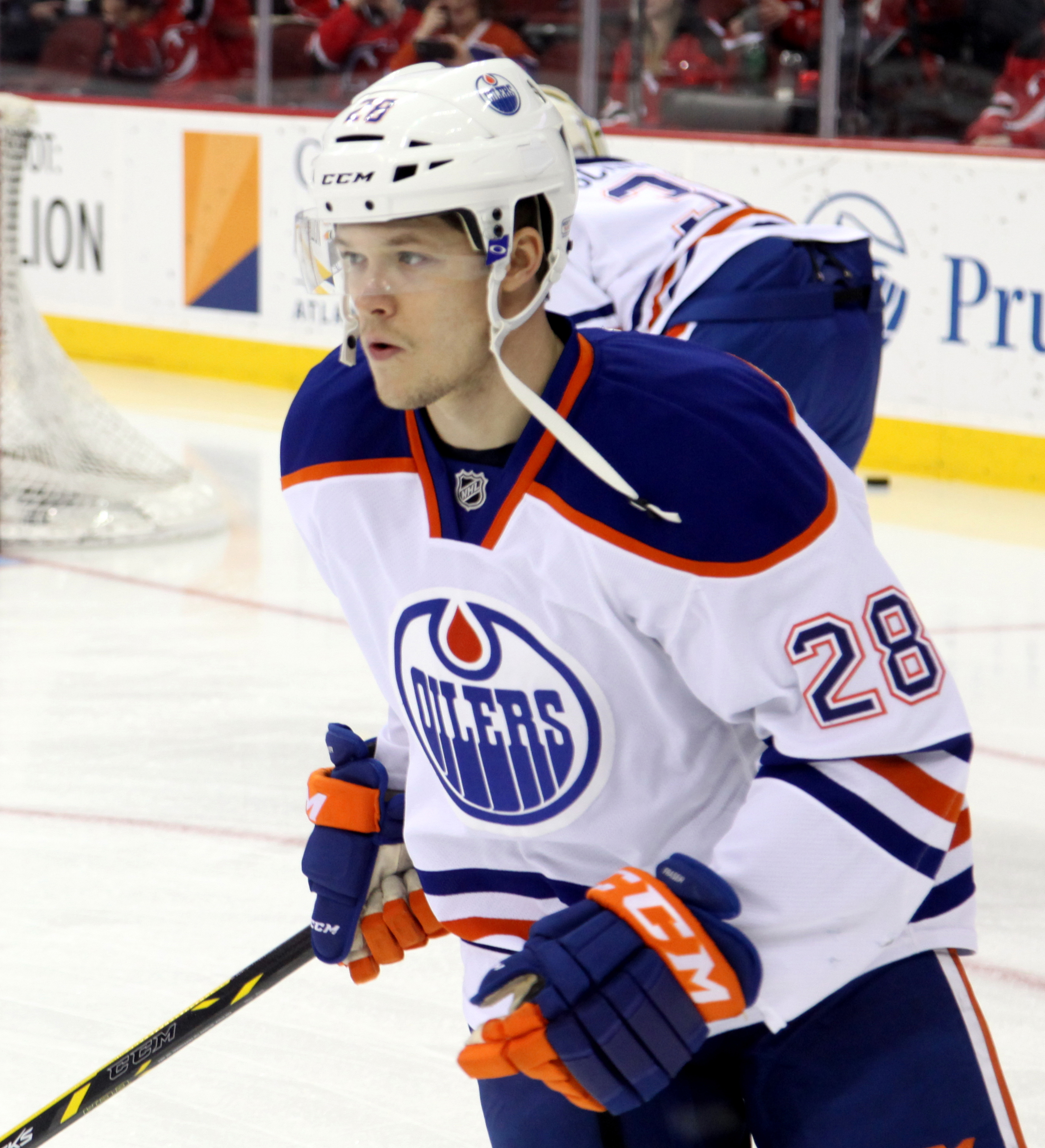 Fraser in February 2015.